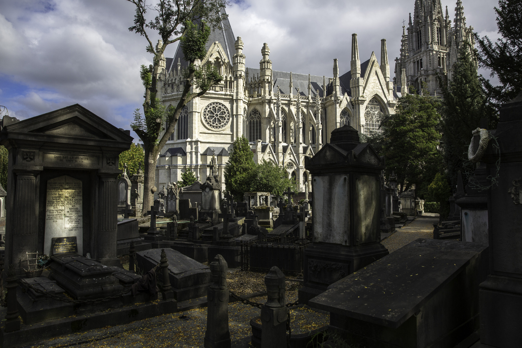 500px provided description: Symbol picture of what Christianity (seems to be) all about... (Cemetery de Laeken, Brussels, 2016) [#Church ,#Brussels ,#Belgium ,#Tomb ,#Cemetery ,#Laeken ,#Epitaph]